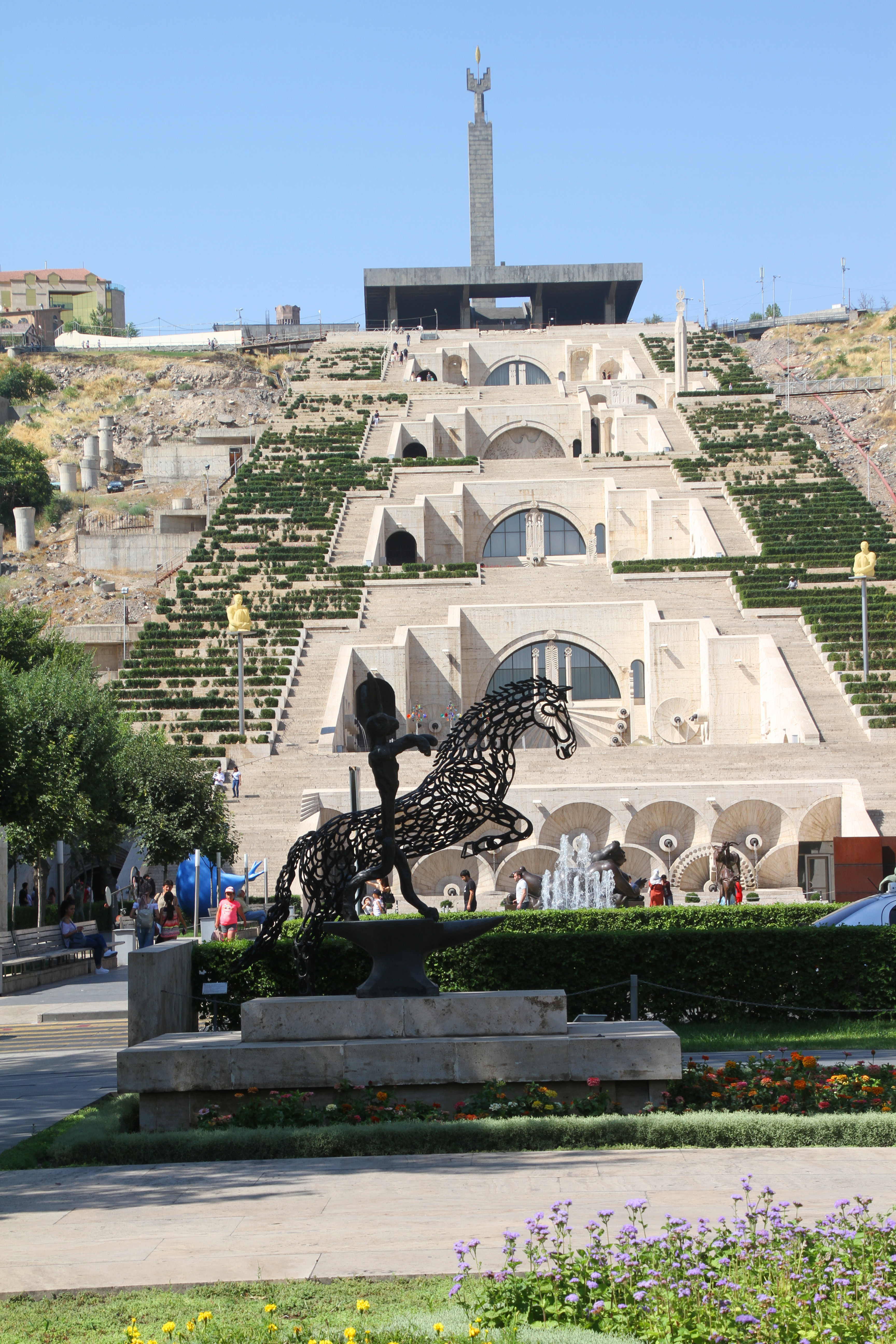 Public art in Cascade of Yerevan